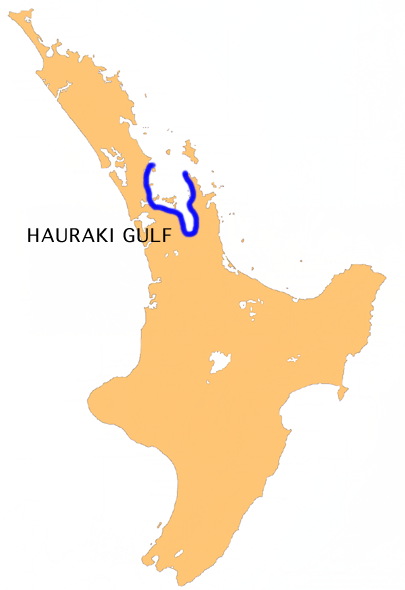 Location map of the Hauraki Gulf, New Zealand